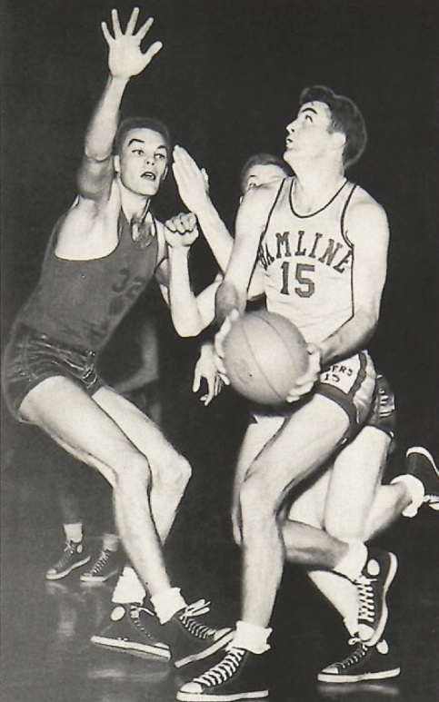 Hamline University basketball All-American Hal Haskins in 1947